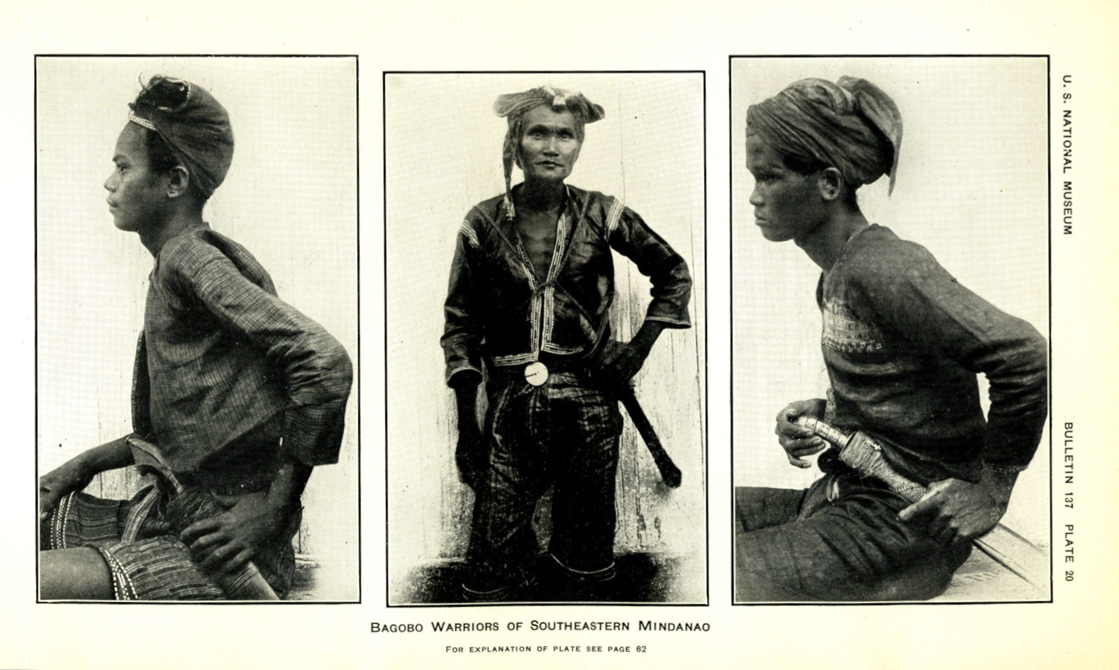 Plate 20 -- Guingas man garbed in maroon jacket. Young Bagobo warriors provided with their characteristic side arms. Davao Province, southeastern Mindanao. Other images on Filipino weapons by the same uploader are here: (a) Luzon weapons; (b) Visayan weapons; (c) Moro weapons; and (d) Lumad (non-Moro Mindanao) weapons